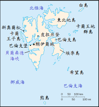 Spitsbergen_map_in_Traditional_Chinese